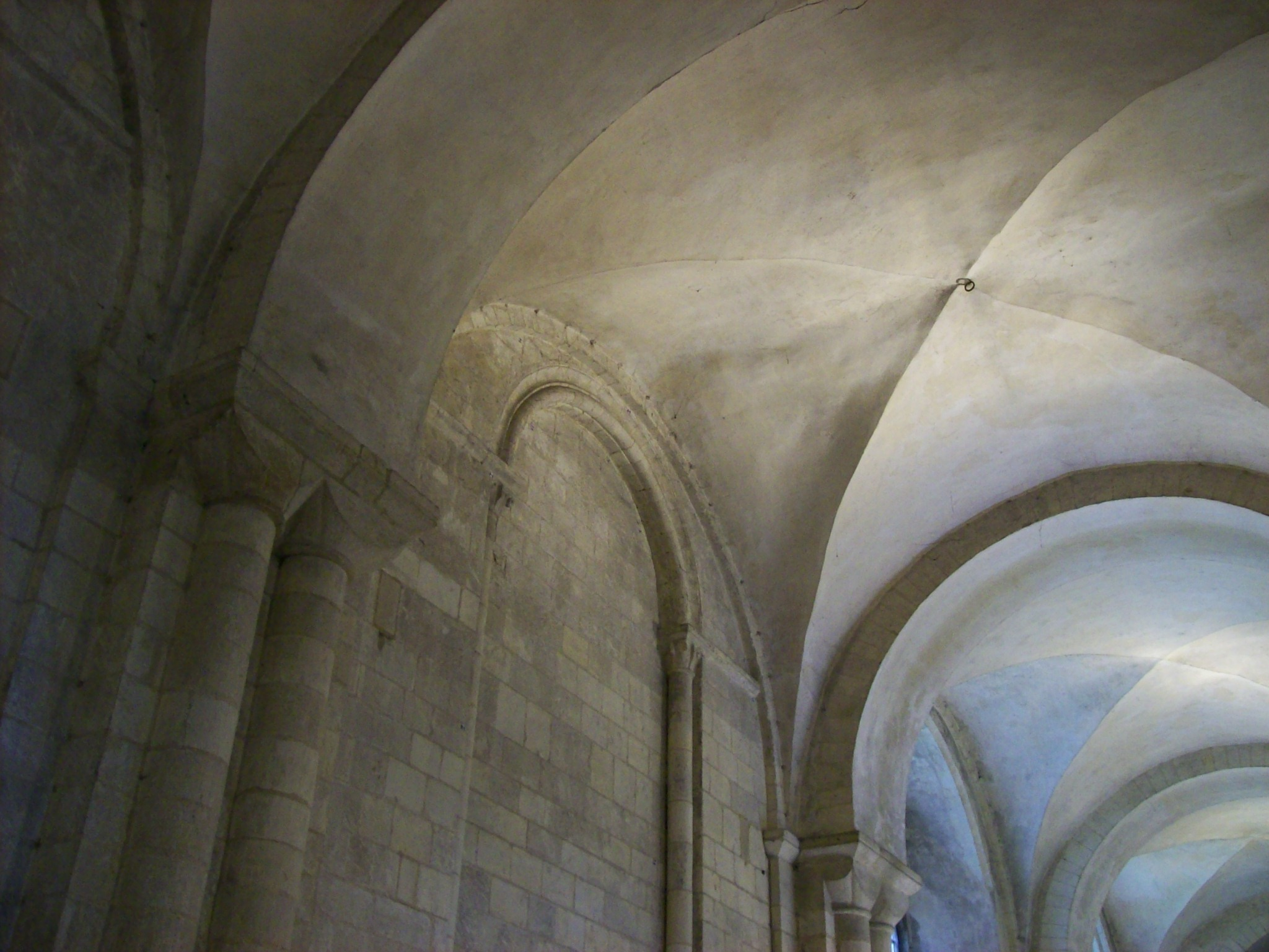 Norwich Cathedral, roof of south aisle